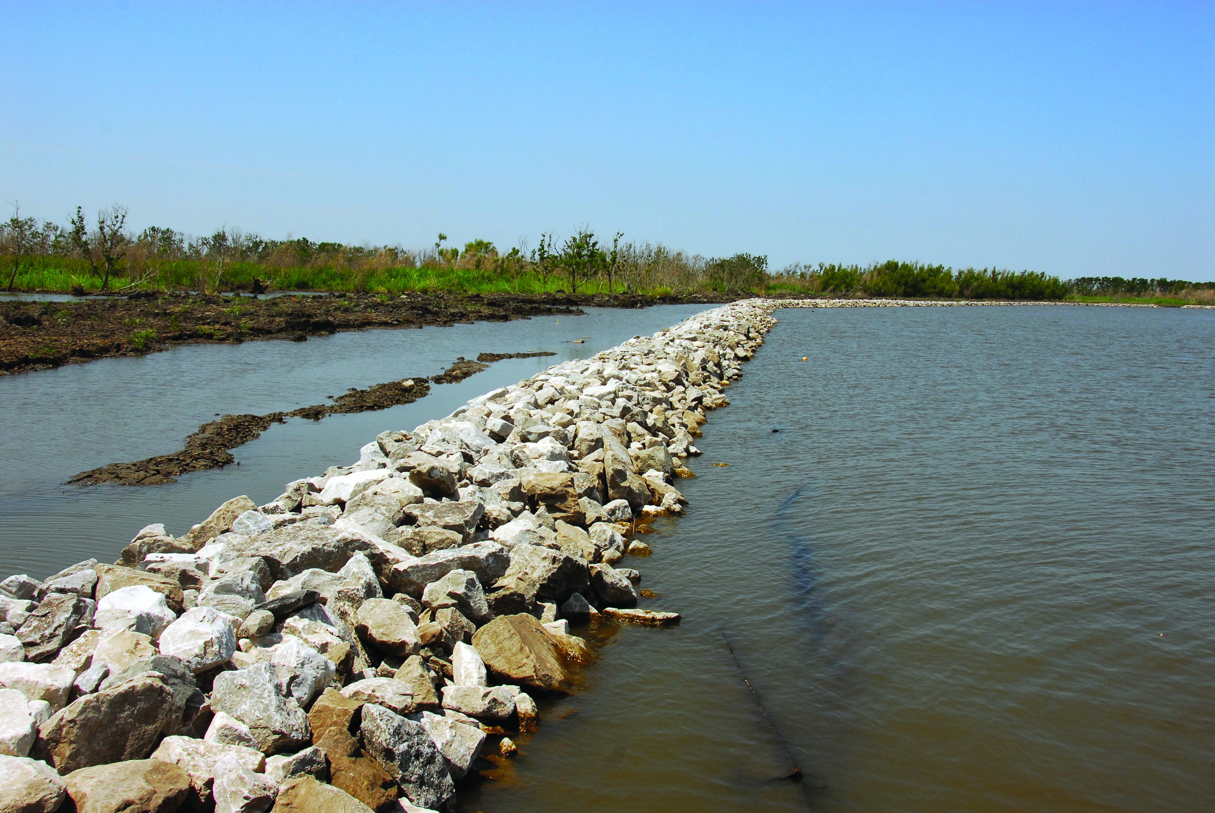 Rock revetments like these help defend the shoreline.